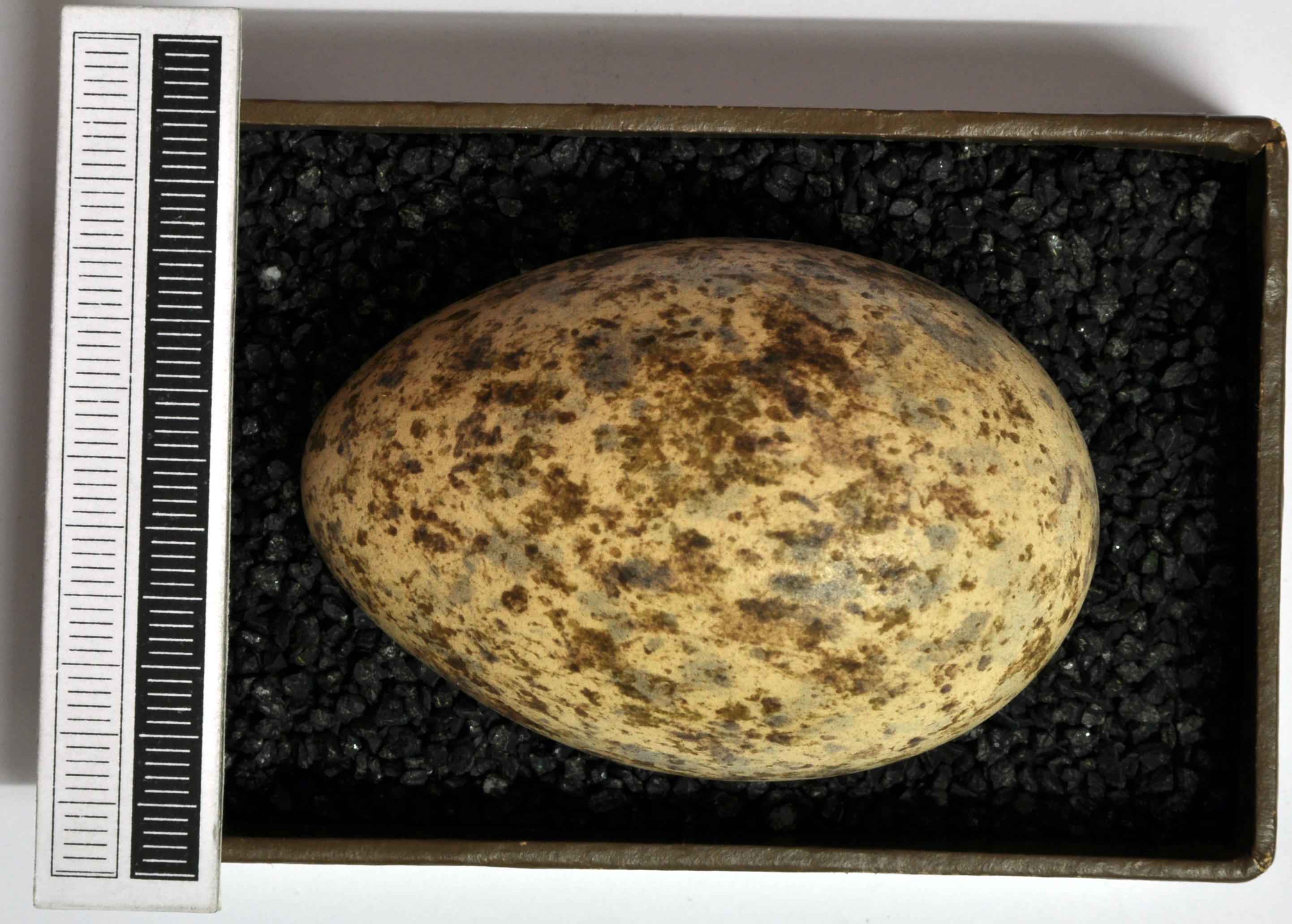 Stone curlew Burhinus oedicnemus , egg, Coll. Museum Wiesbaden, Origin: Konyae, Turkey, 16.05.1972, leg. W. Abelmann